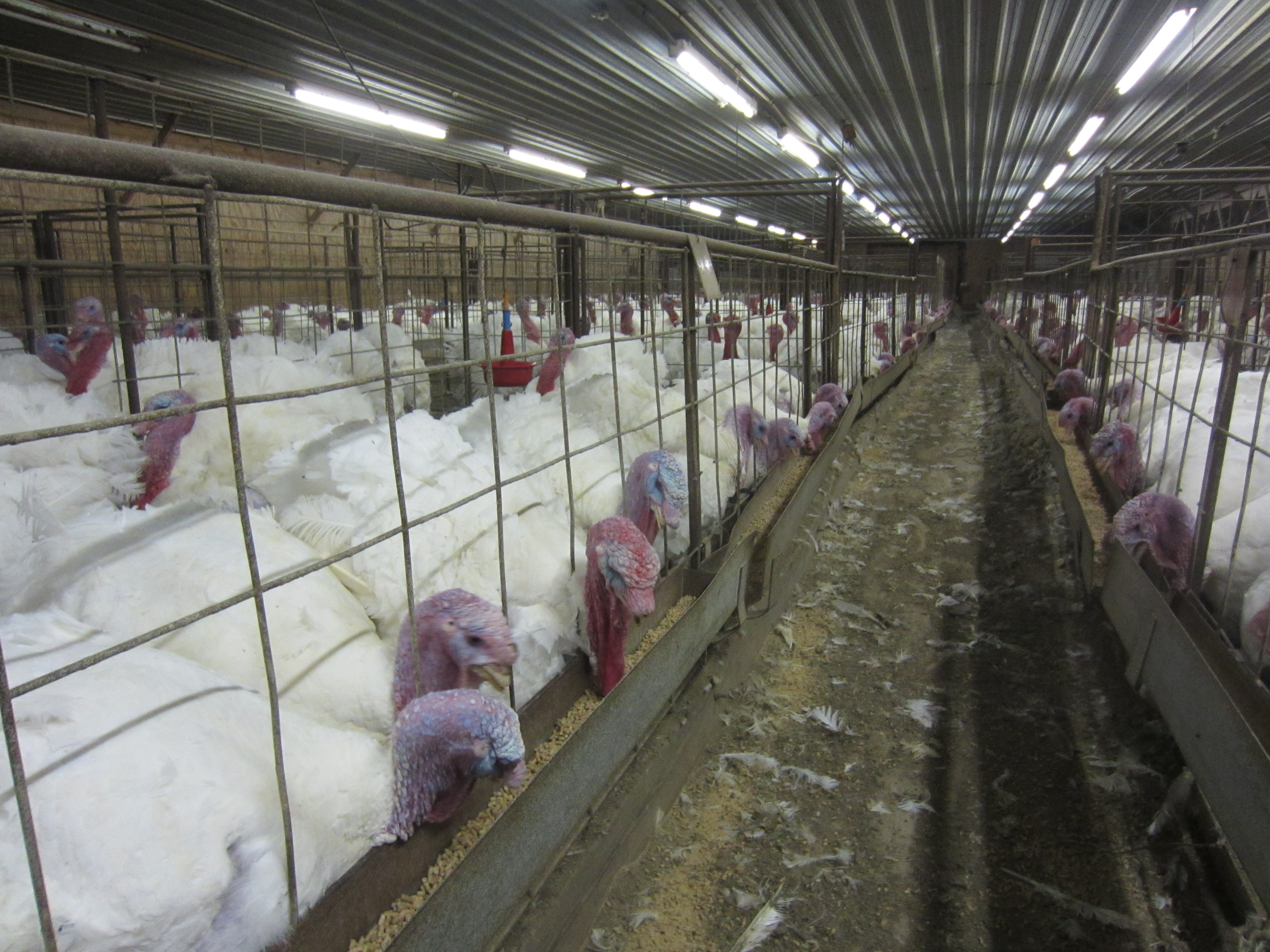 Picture revealing animal cruelty and neglect of turkeys taken during an undercover investigation at a Butterball farm in North Carolina, USA.